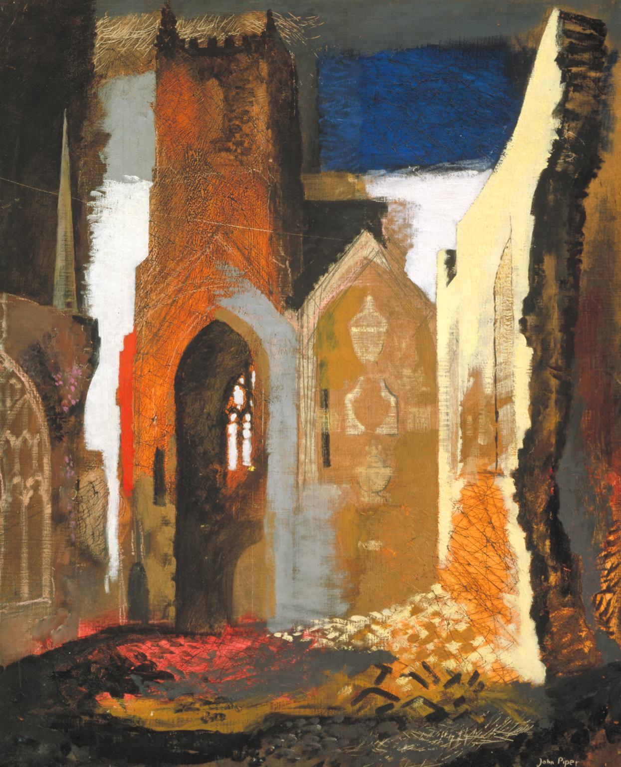 St Mary le Port, Bristol 1940 John Piper 1903-1992 Presented by the War Artists Advisory Committee 1946